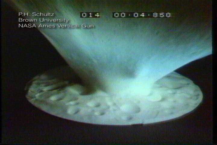 Photo No. ACD05-0111-007 - Image of a projectile hitting a test target that simulated the collision of the Deep Impact spacecraft's impactor with comet Tempel 1. The actual collision is scheduled to take place on July 3, 2005 PDT (July 4, 2005 EDT). This simulation was done at the Vertical Gun at NASA Ames Research Center, Moffett Field, Calif. Please credit image to P.H. Schultz, Brown University and J.P. Wiens. This image was released on June 16, 2005.